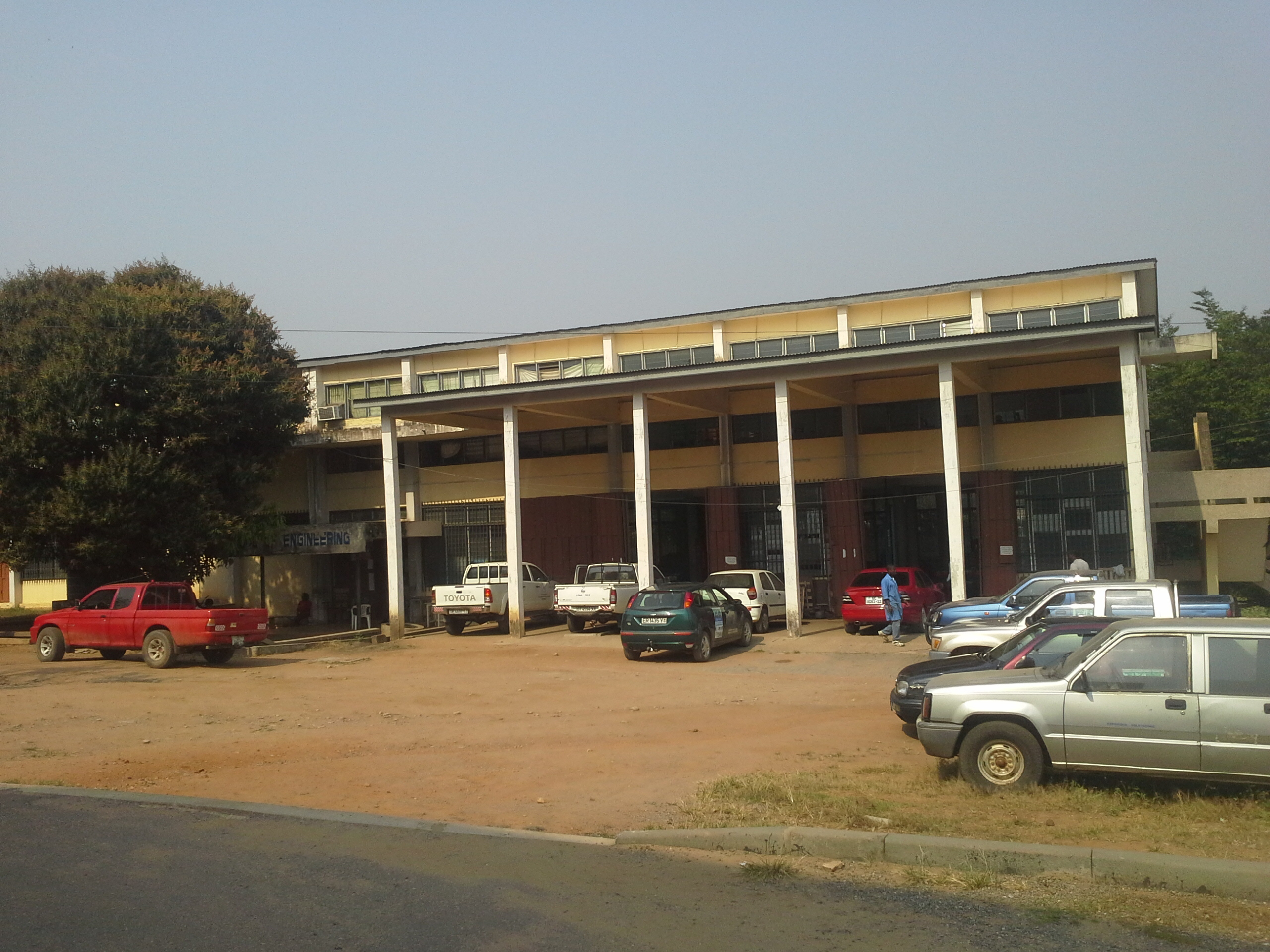 The current engineering block of k poly.